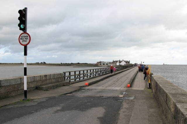 Bull Wall Bridge, North Bull Wall, Dollymount, Dublin The building of the Bull Wall (as an aid to shipping) commenced in 1819 and was completed in 1824. The materials used were granite and local limestone. It stretches for 9,000 feet from the shore at Dollymount to the North Bull light at the entrance to the Port. It is connected to the mainland by the wooden bridge depicted here.